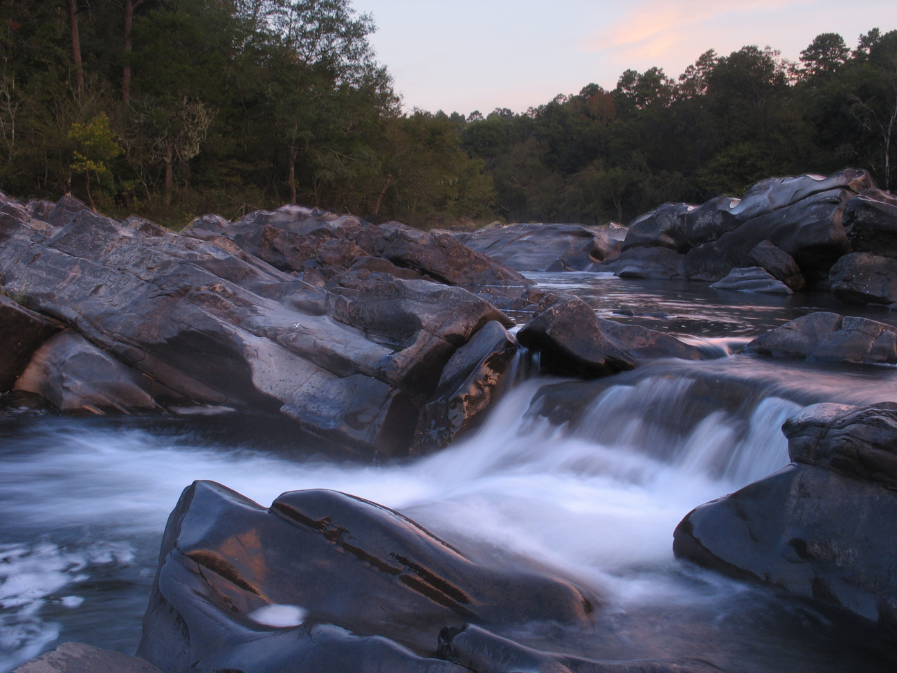 river flow HDR